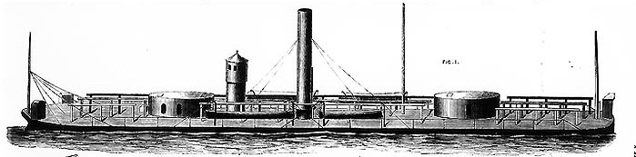 Drawing of the monitor Chickasaw from the magazine Engineering, 1866